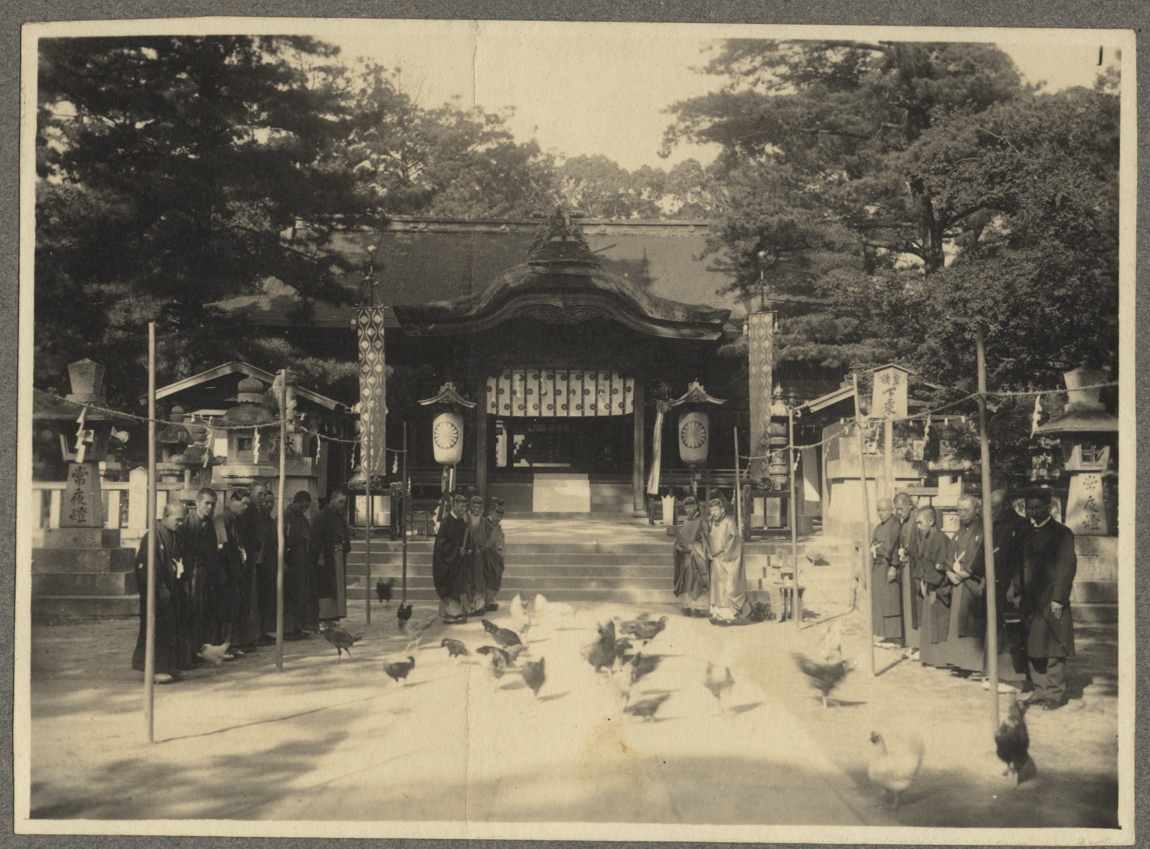 nagata shrine